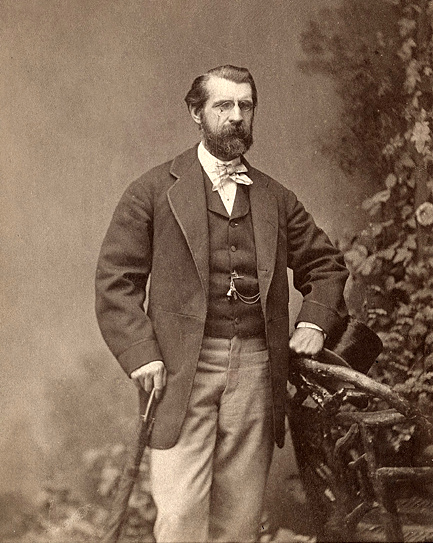 A Oakey Hall Cabinet Photo